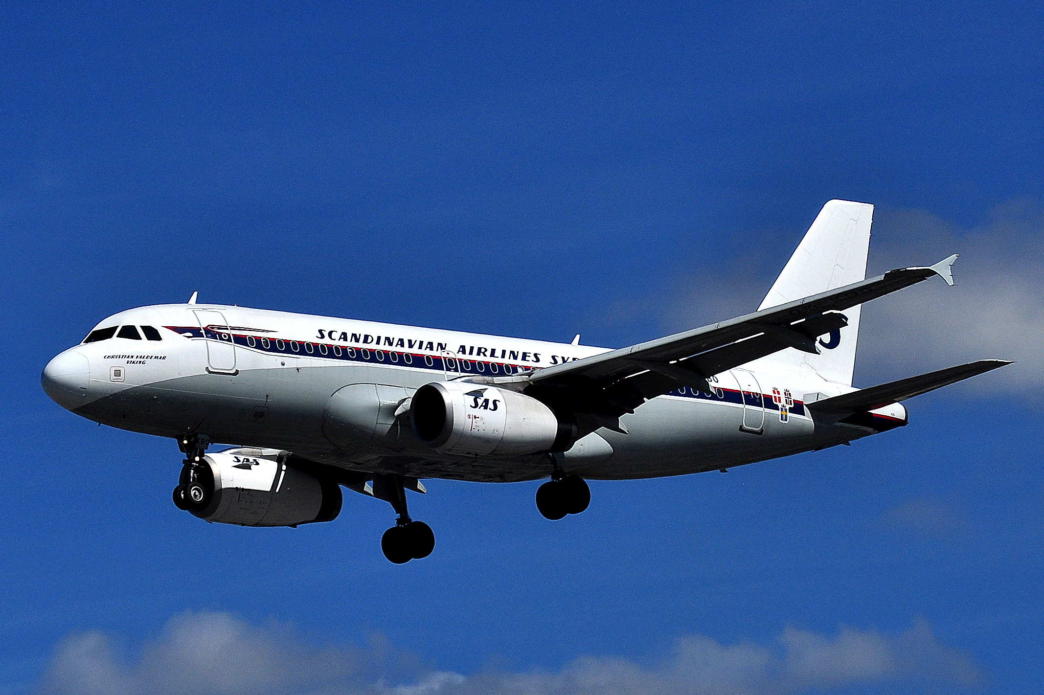 Model: Airbus A319-100 Airline: SAS Scandinavian Airlines Registration number: OY-KBO